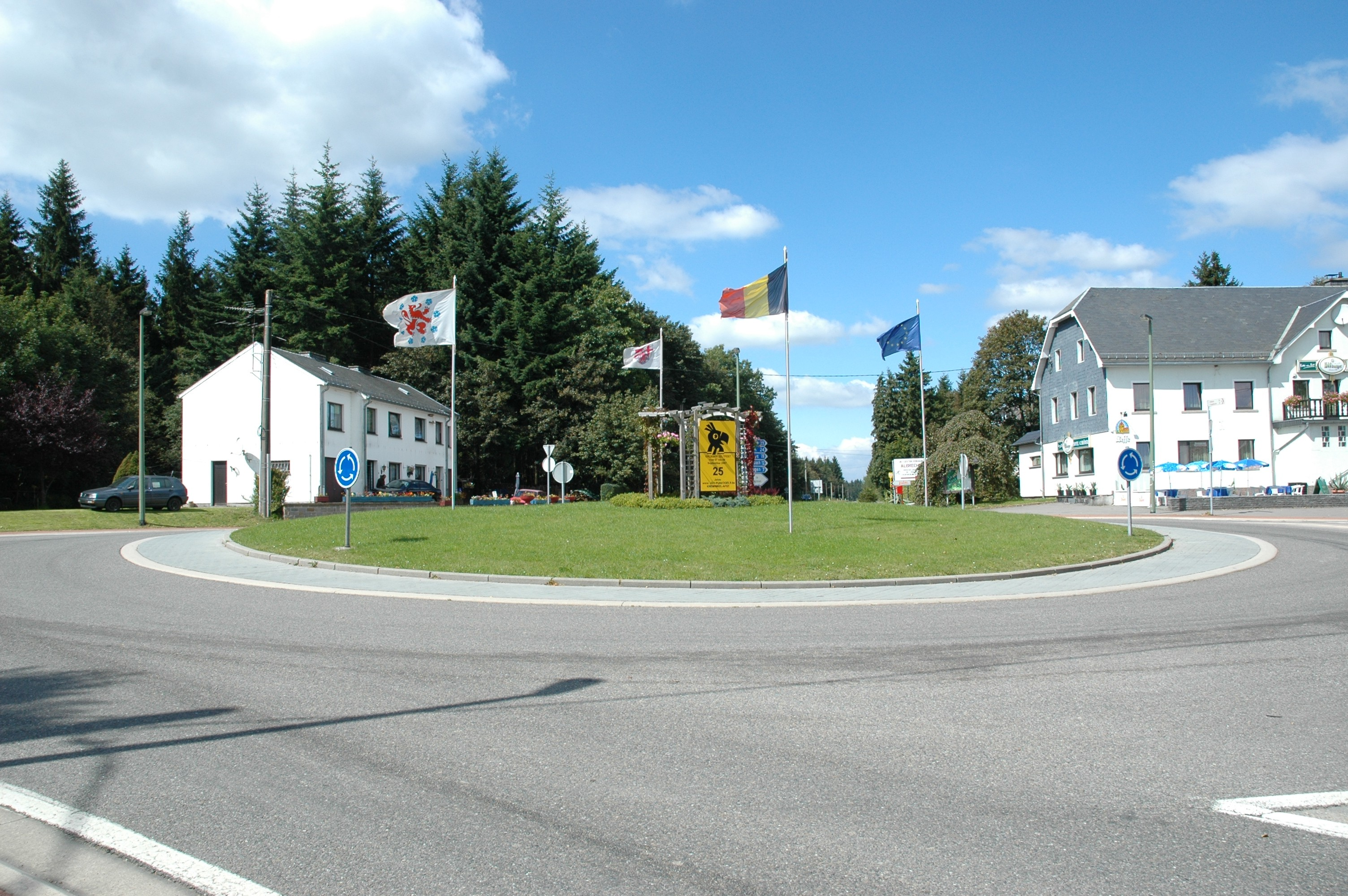 A roundabout on the Belgian side of the settlement Losheimergraben, belonging to the municipality Büllingen. The flags from left to right: German-speaking Community of Belgium, Municipality of Büllingen, Kingdom of Belgium and the European Union.